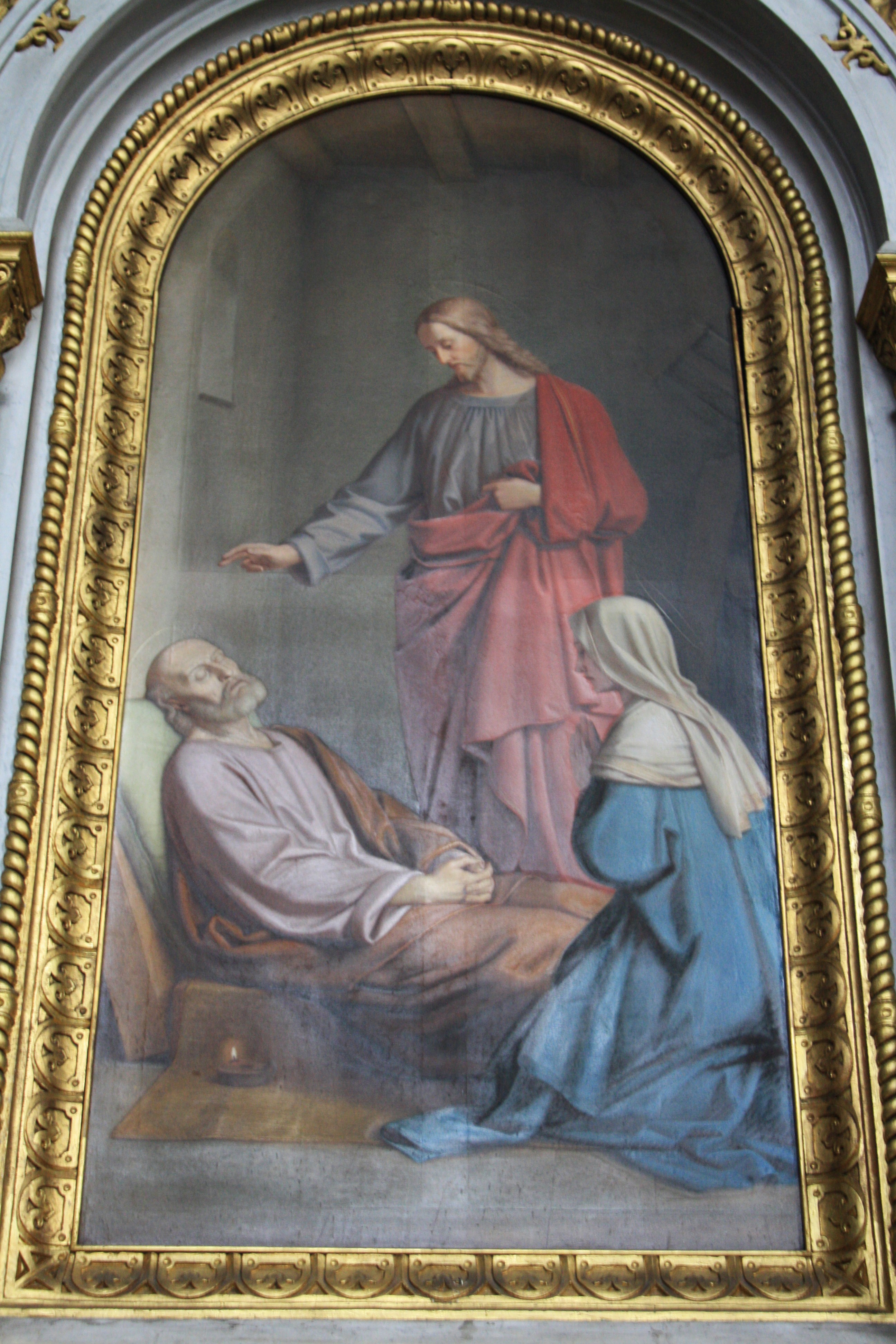 Italy, South Tyrol, Bruneck, Maria Himmelfahrt. The church was built in 1853 on plans of Hermann von Bergmann in neoromanesque. The church has a nave with painting representing the life of Christ by Georg Mader and Franz Hellweger.